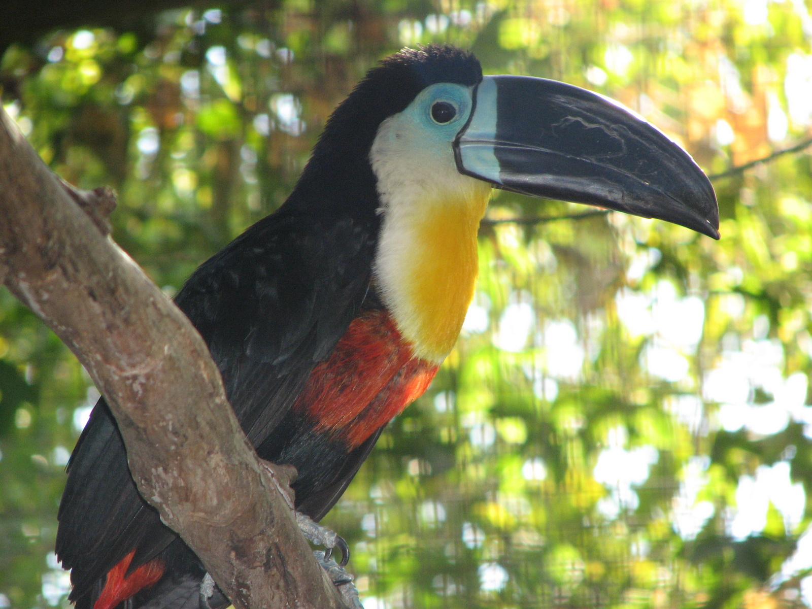 Channel-billed Toucan (subspecies R. v. vitellinus) at Lagos Zoo, Portugal.